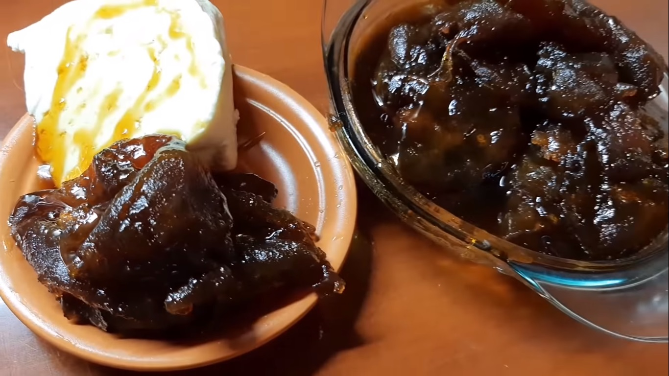 Koserevá is an orange candy which has a bittersweet taste and is oftenly served with paraguayan cheese.